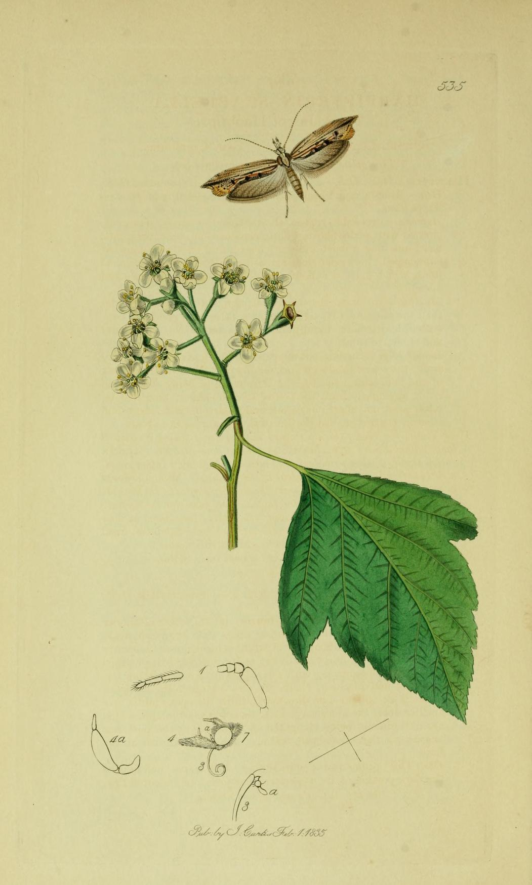 An illustration from British Entomology by John Curtis. Lepidoptera: Harpipteryx scabrella or Ypsolopha scabrella (Wainscot Hooktip, Wainscot Smudge).